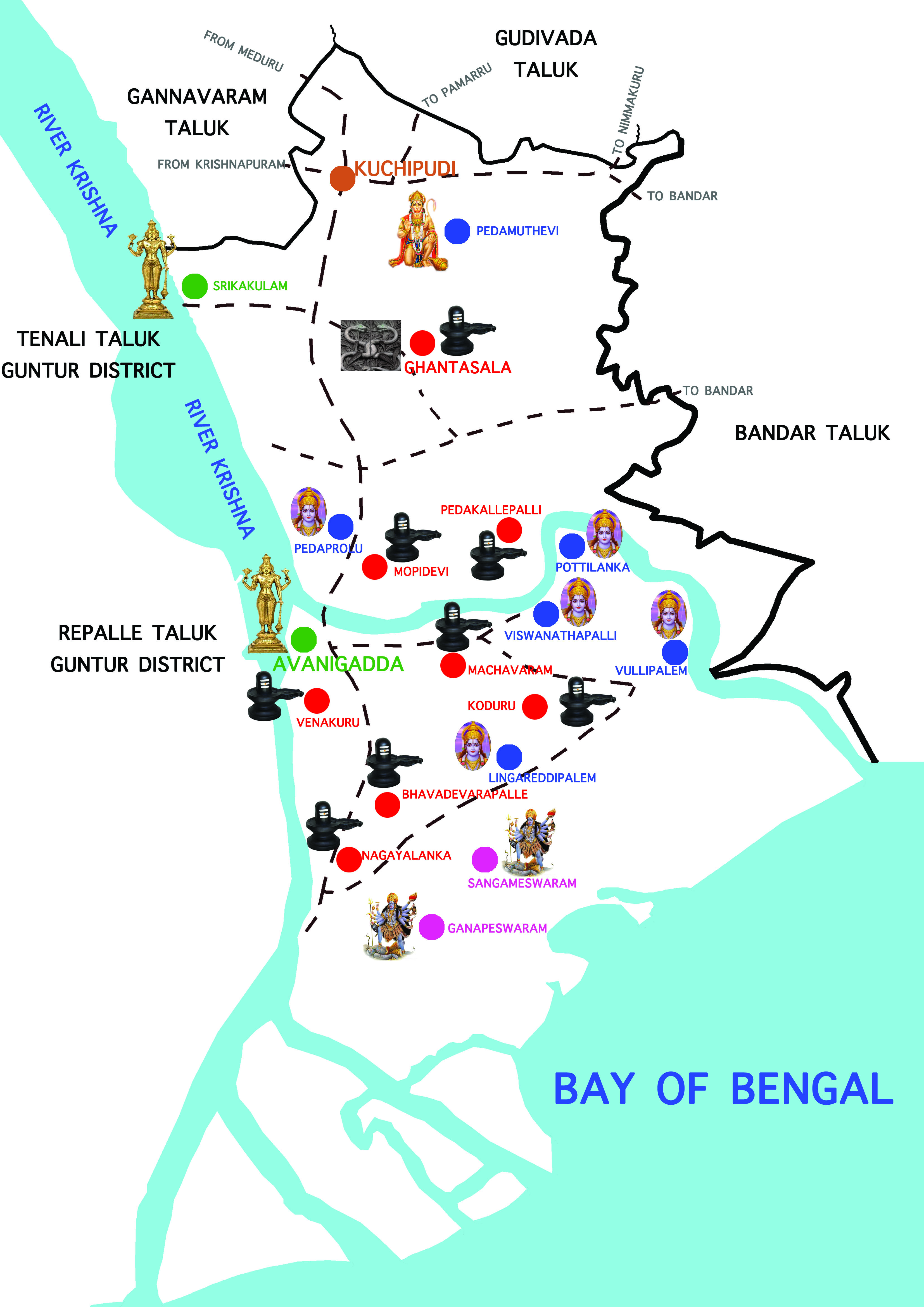 List of temples in Diviseema